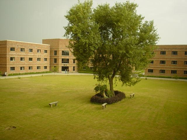 Lahore University of Management Sciences. Picture of the Hostels